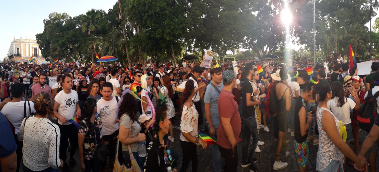 The number of people participating in the 17th annual Pride March in Mérida, Mexico swelled to over 8,000 people because of the recent failure of a marriage equality bill in the state legislature.